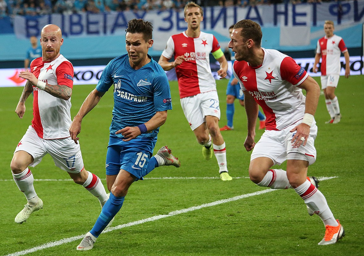 Zenit vs. SK Slavia Prague, 4 October 2018